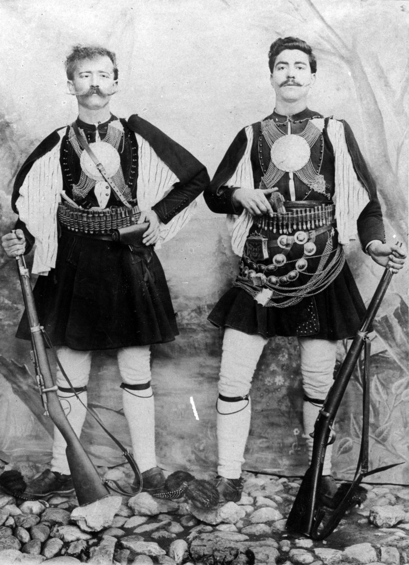 Anastasios Alvanos and Georgios Skalidis